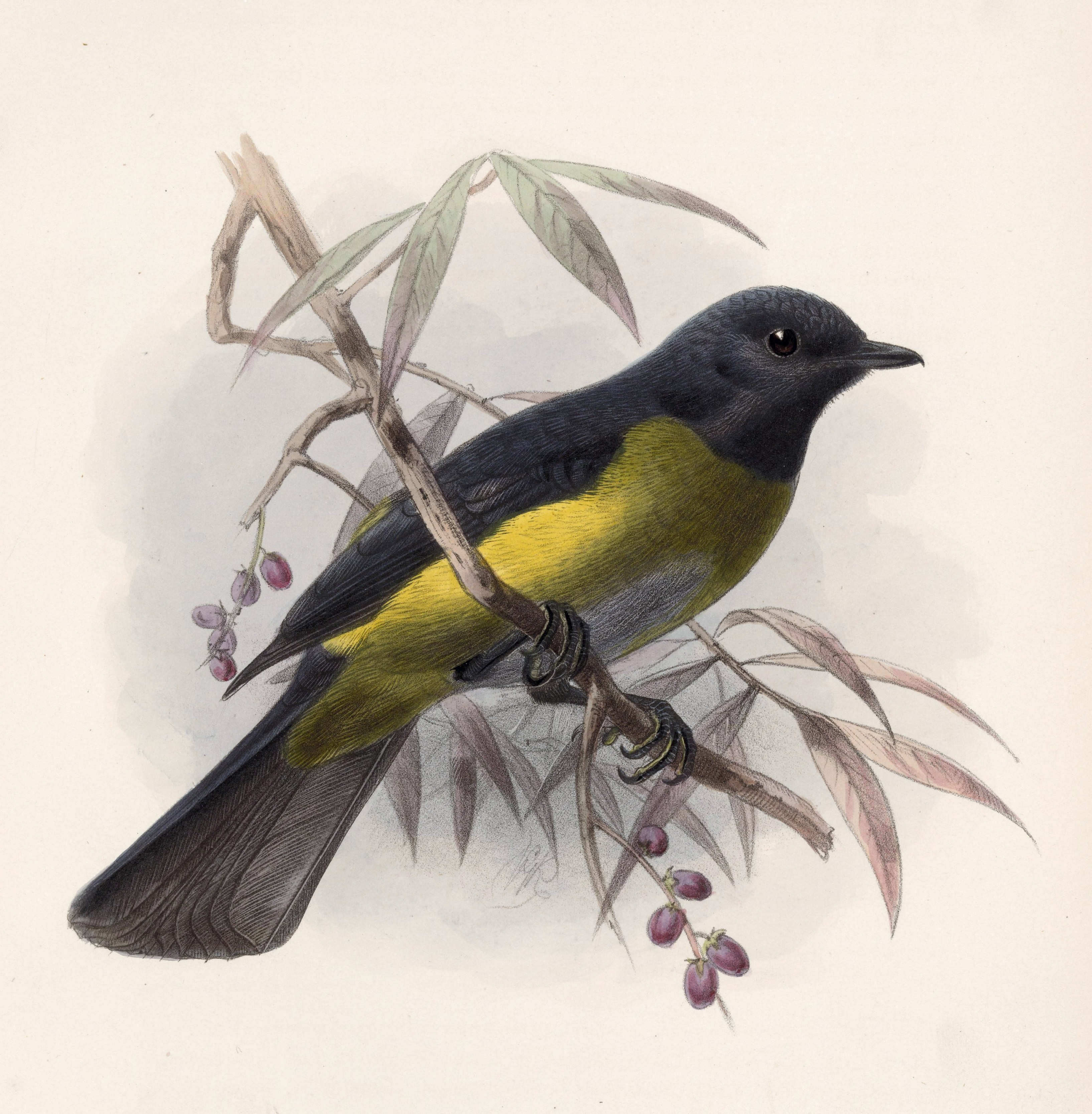 « Phainoptila melanoxantha » = Phainoptila melanoxantha (Black-and-yellow Silky-flycatcher)